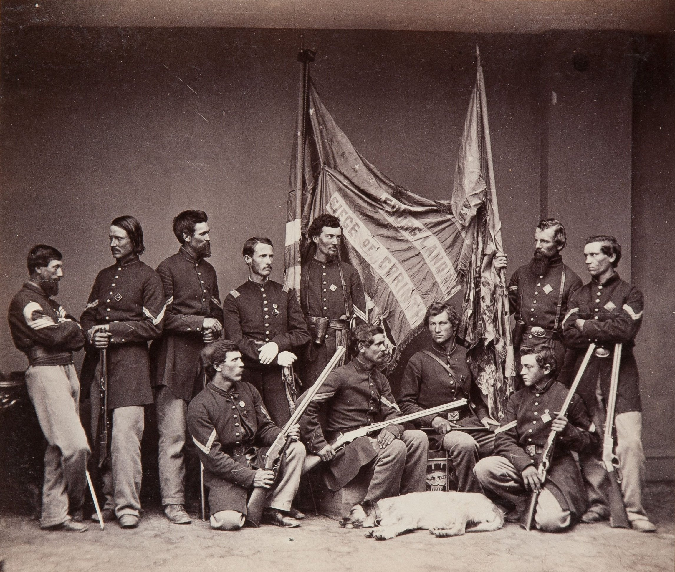 Colour-bearers of the 71st Illinois, Heritage Auction Galleries